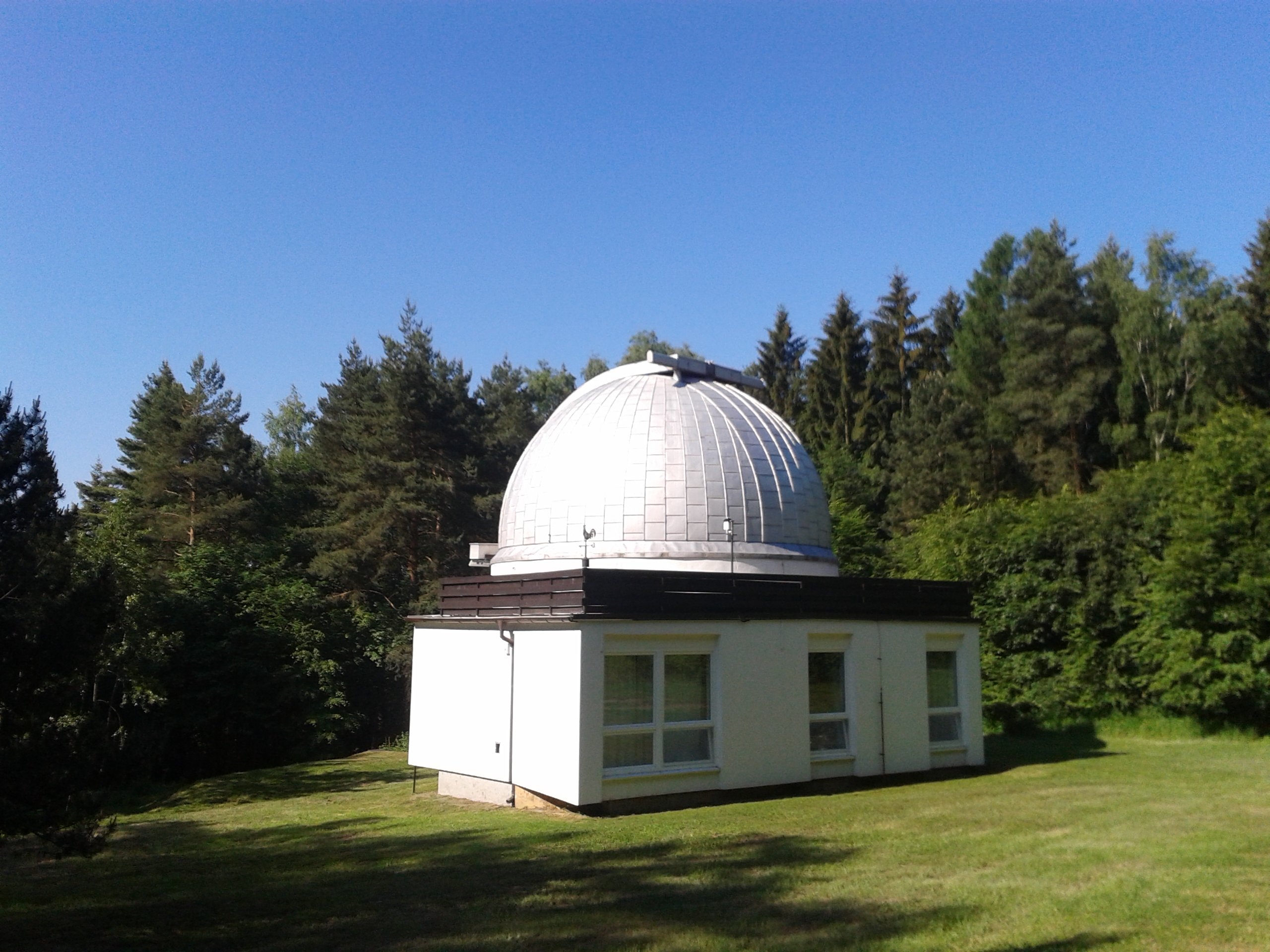 The dome of the 65-cm telescope at the Ondřejov observatory (Czech Republic).